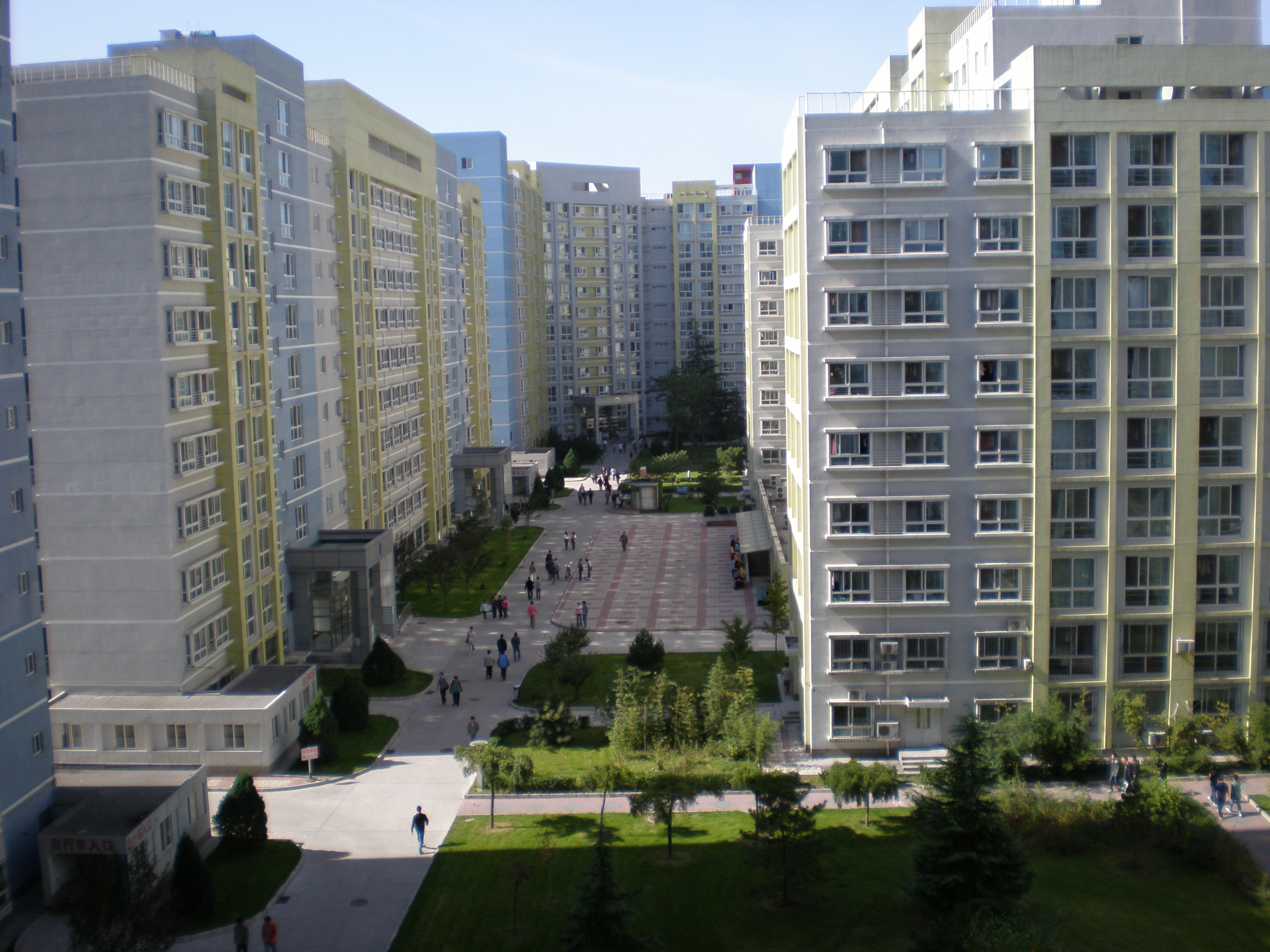 Dormitories of University of Science and Technology Beijing